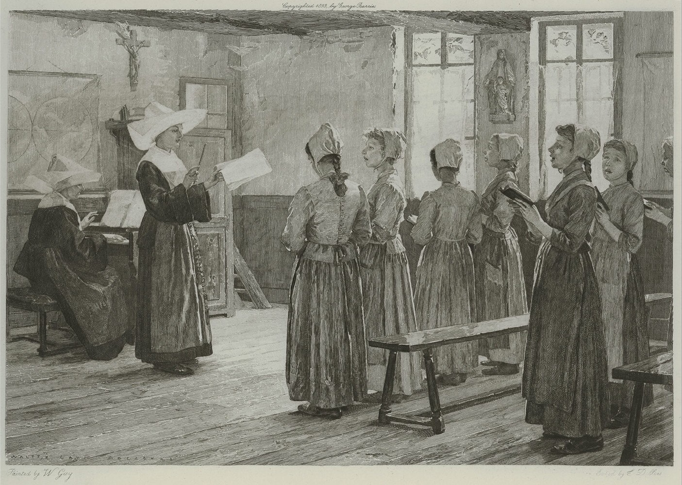 "THE SINGING LESSON", Painted by Walter Gay (1856-1937), Etched by Charles Alphonse DeBlois, World's Columbian Exposition 1893